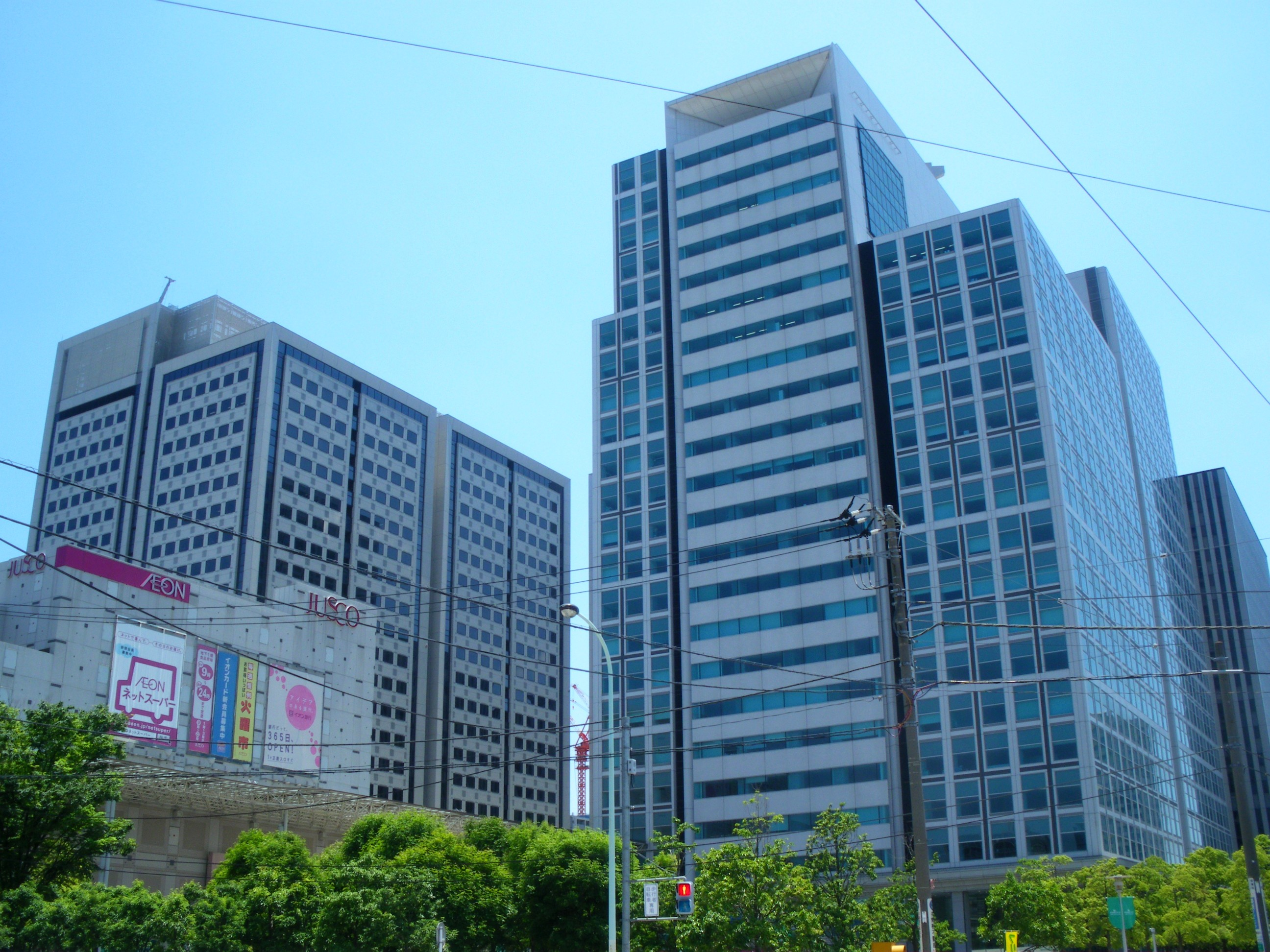 A photo of an overview of Shinagawa Seaside Forset.Higashishinagawa,Shinagawa-ku,Tokyo,Japan.